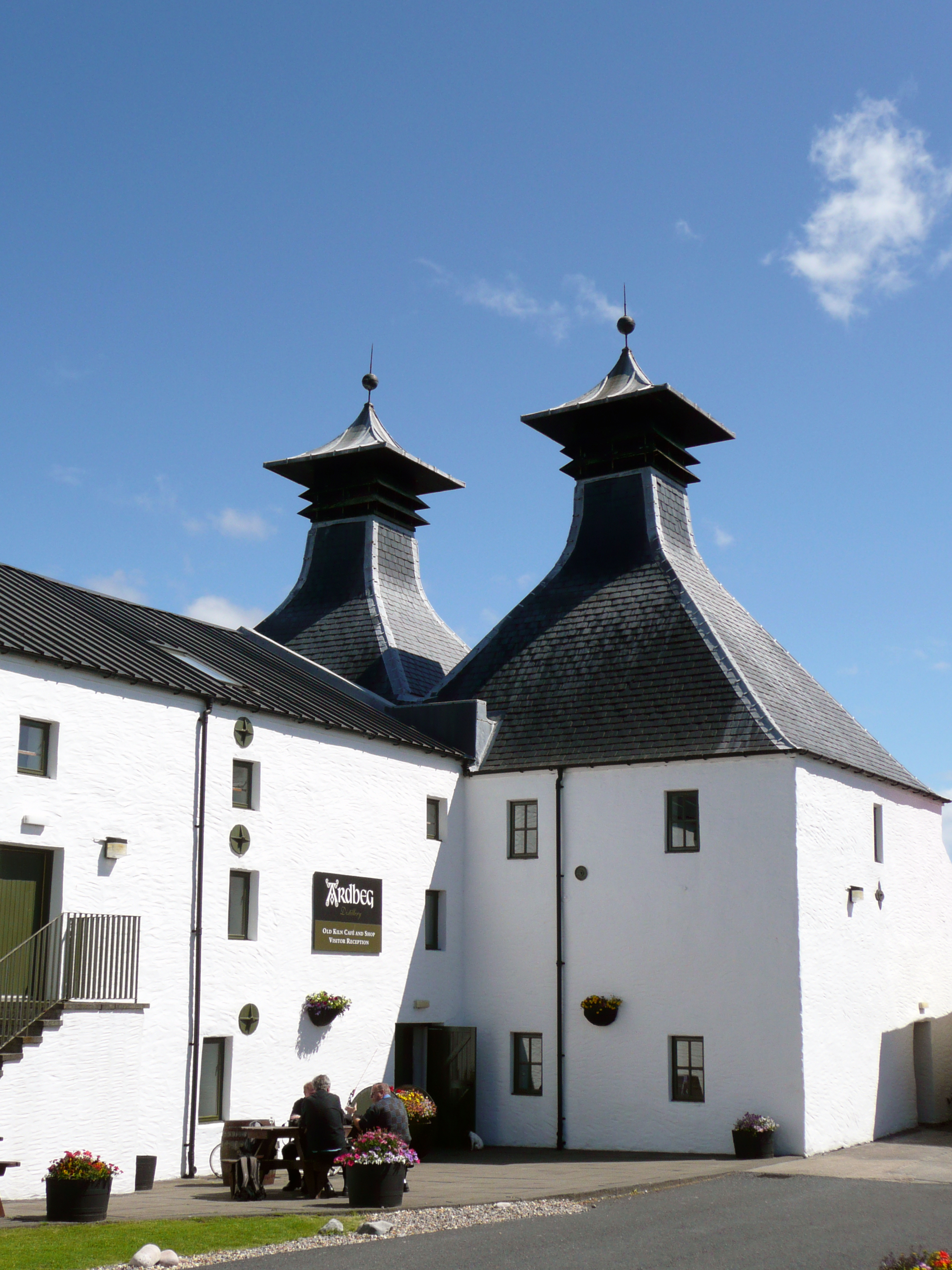 Ardbeg Distillery